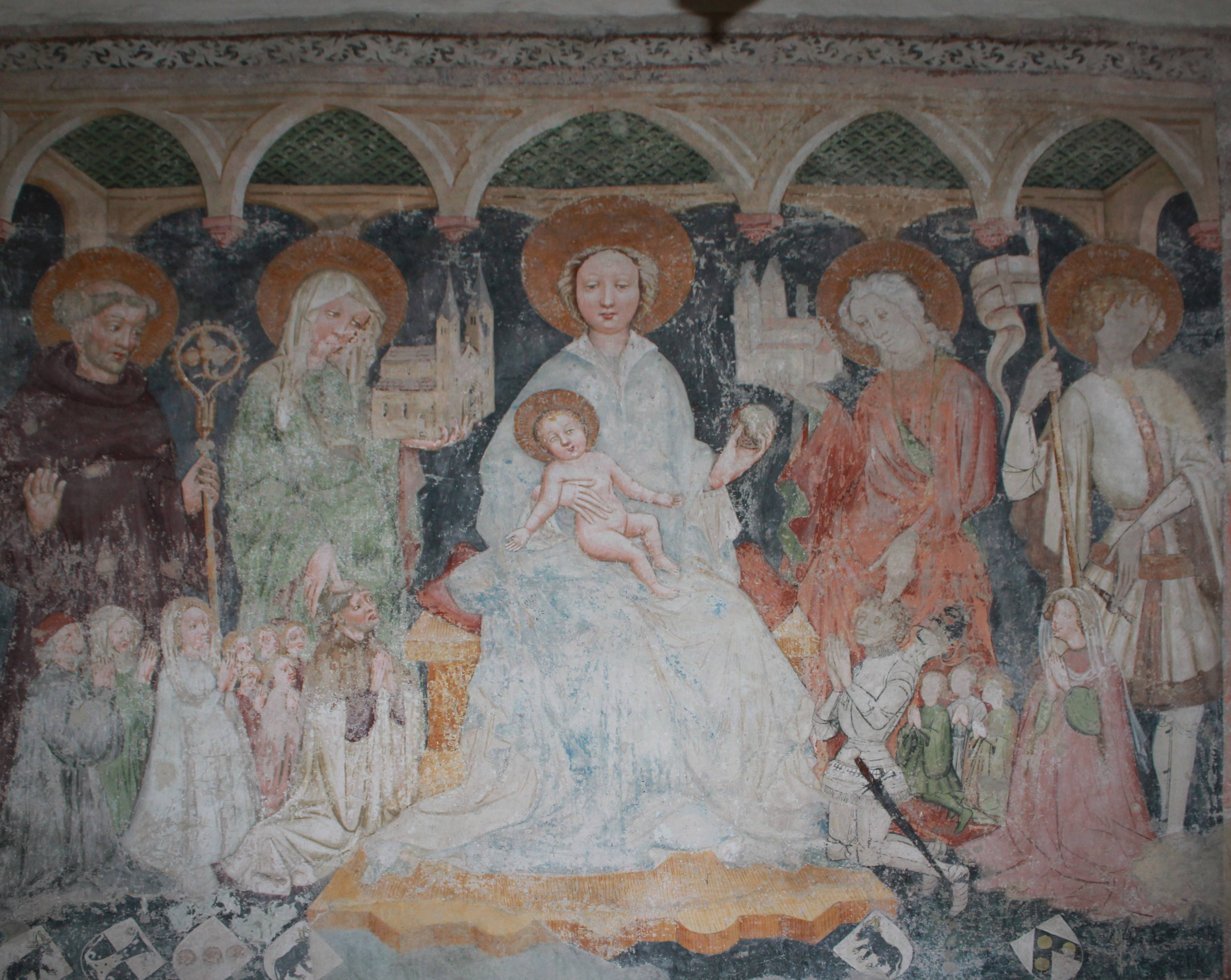 Parish church in Zweinitz in the community of Weitensfeld - Sacra Conversazione